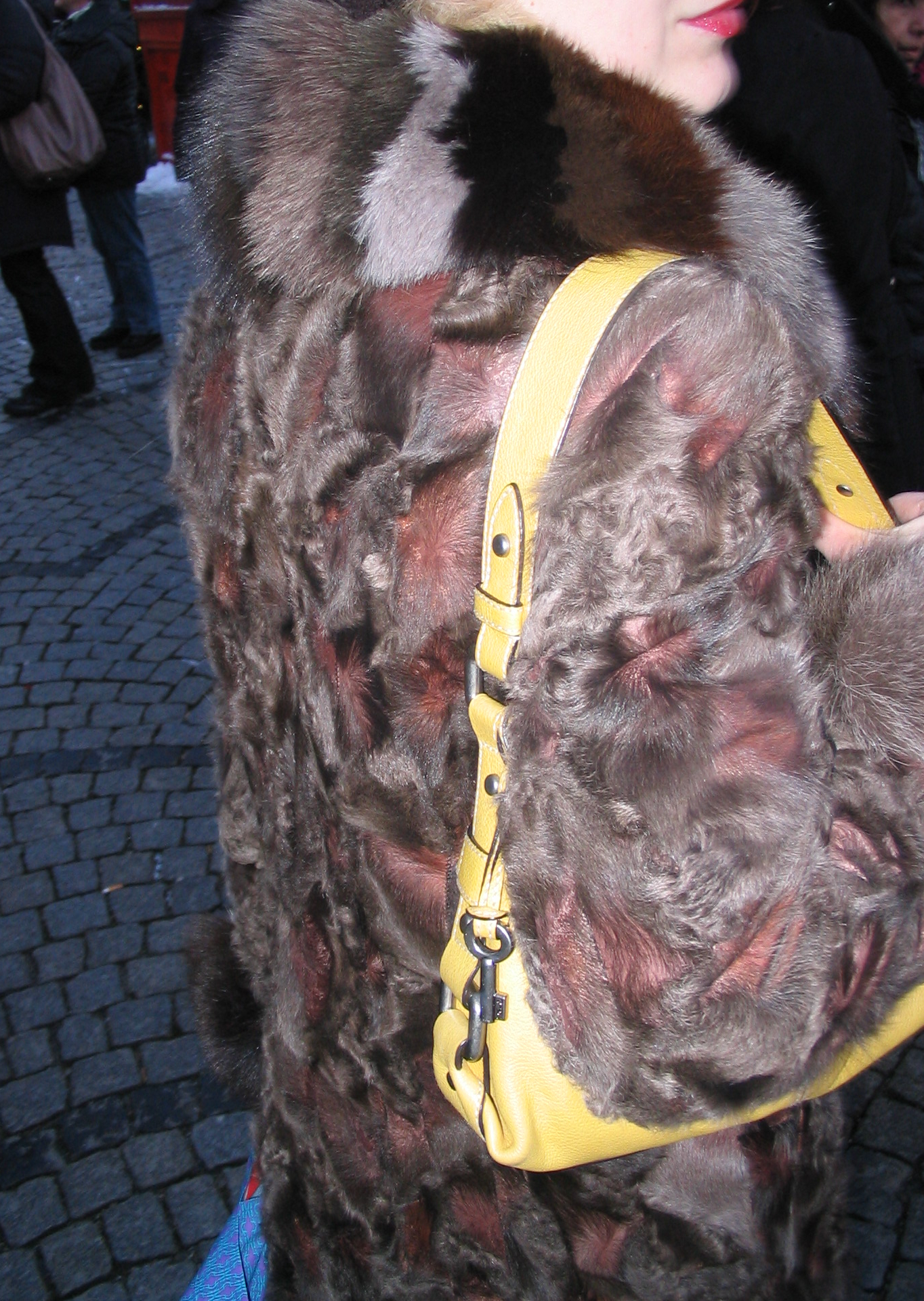 Persian lamb paws coat, dyed. Seen in Düsseldorf, Germany.